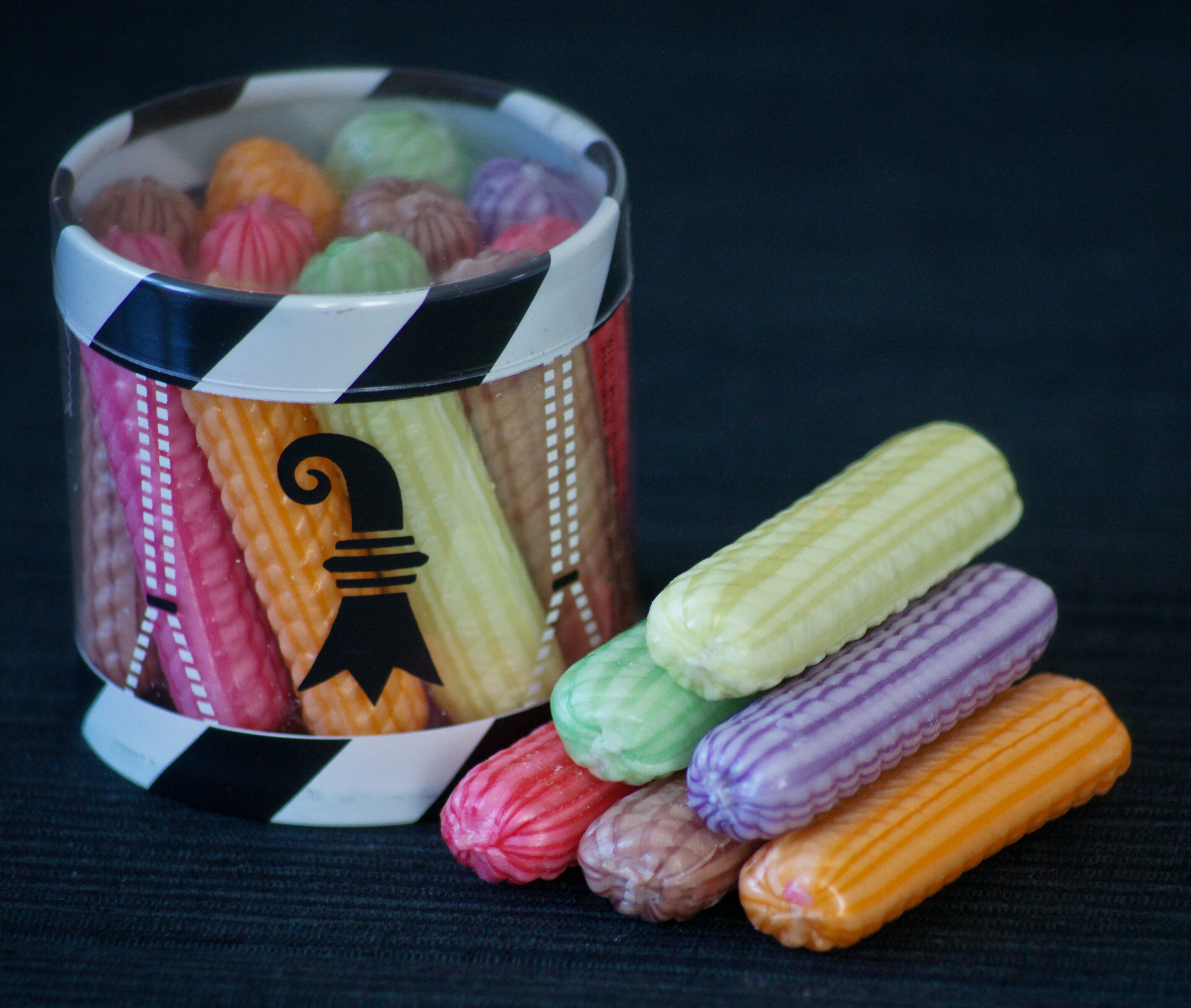 "Mässmögge", traditional specialty sweets from Basel, Switzerland. Made by Sweet Basel AG, Birsfelden, sold in Migros supermarkets.